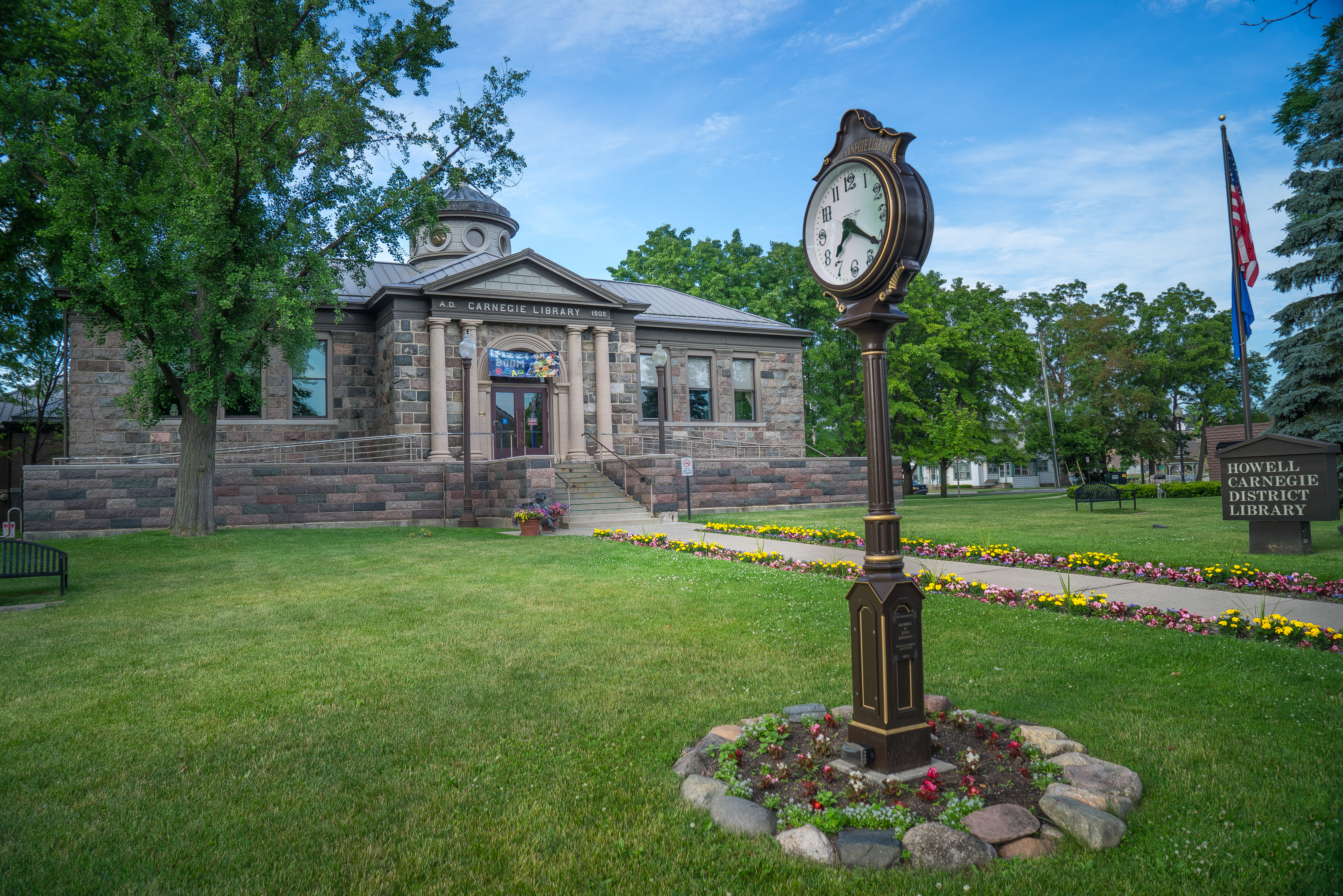 Howell MI Carnegie Library by Joshua Young